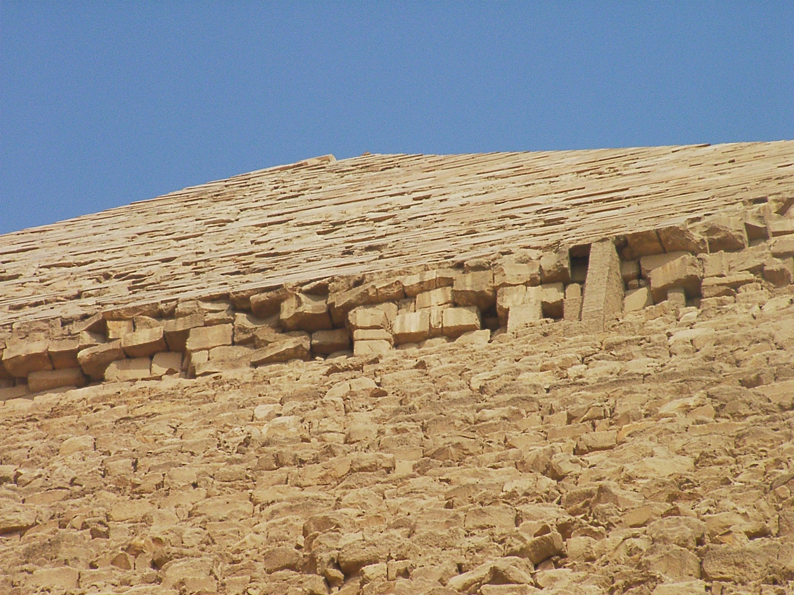 Original casing of Khafre's pyramid. Note the lack of backing stones and method of horizontal laying of casing blocks; also the uneven surface (distorted by earthquakes)